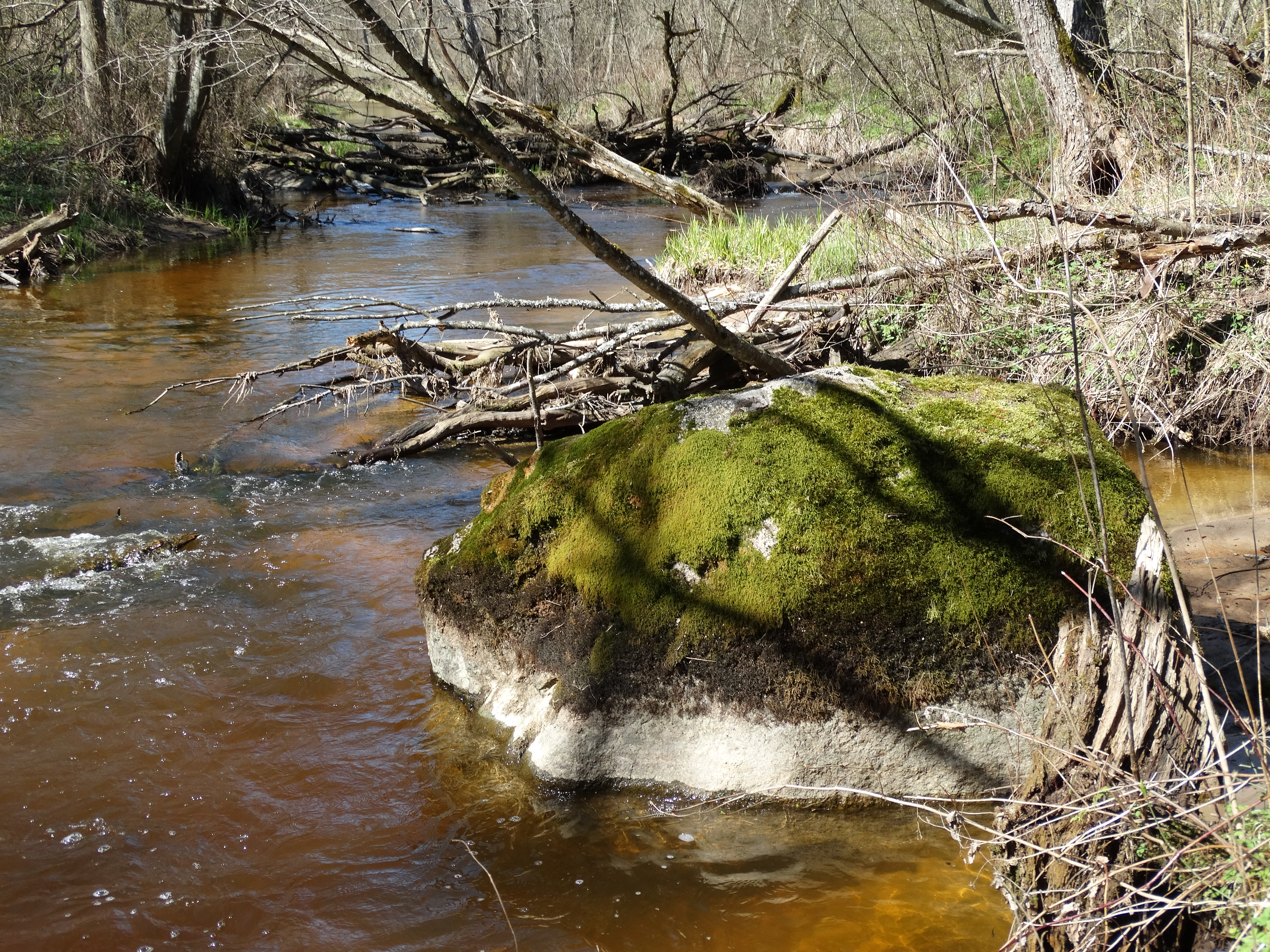 Dūkšta River in Dūkštos, Vilnius district, Lithuania